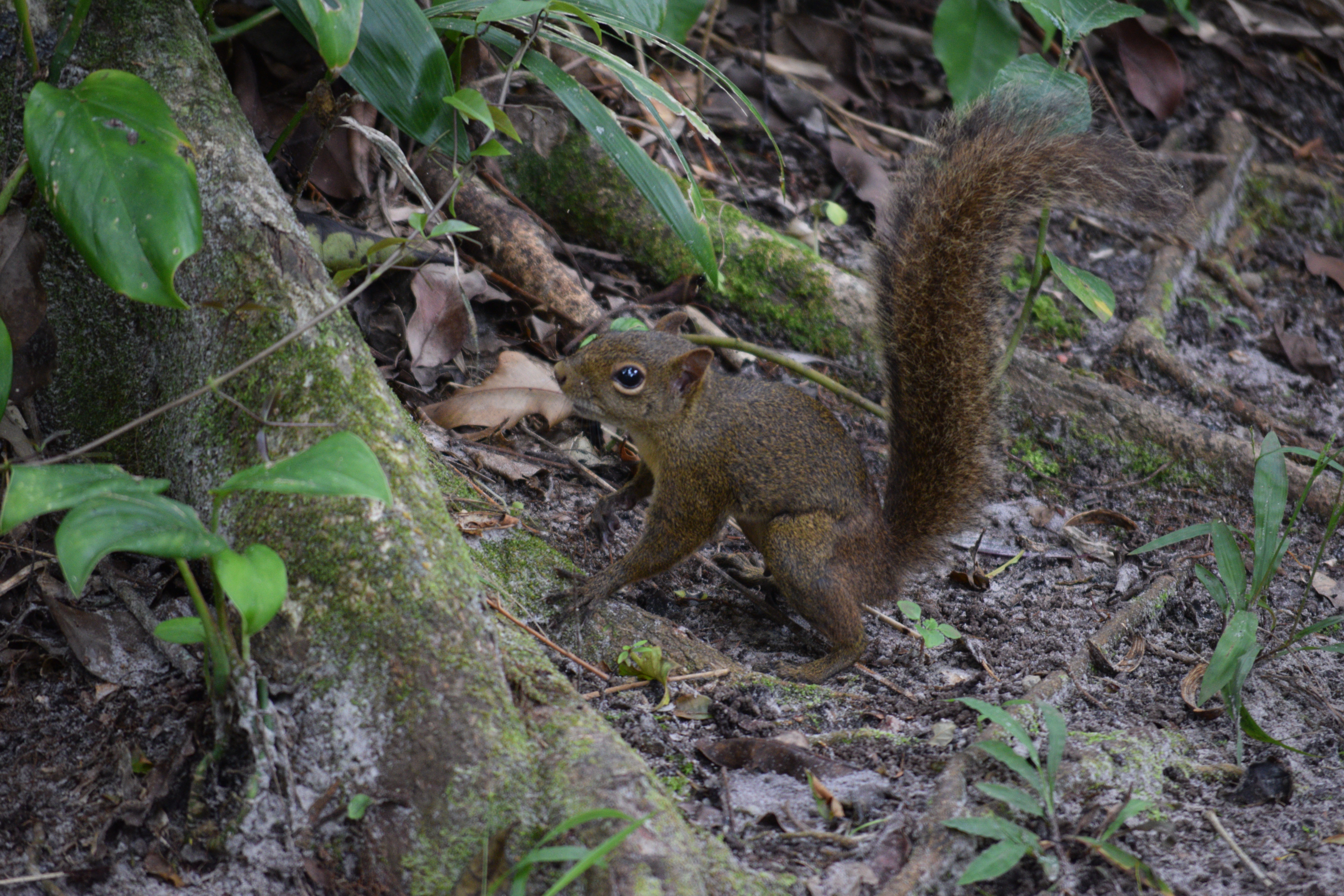 Brazilian Squirrel (Caxinguele) on the ground